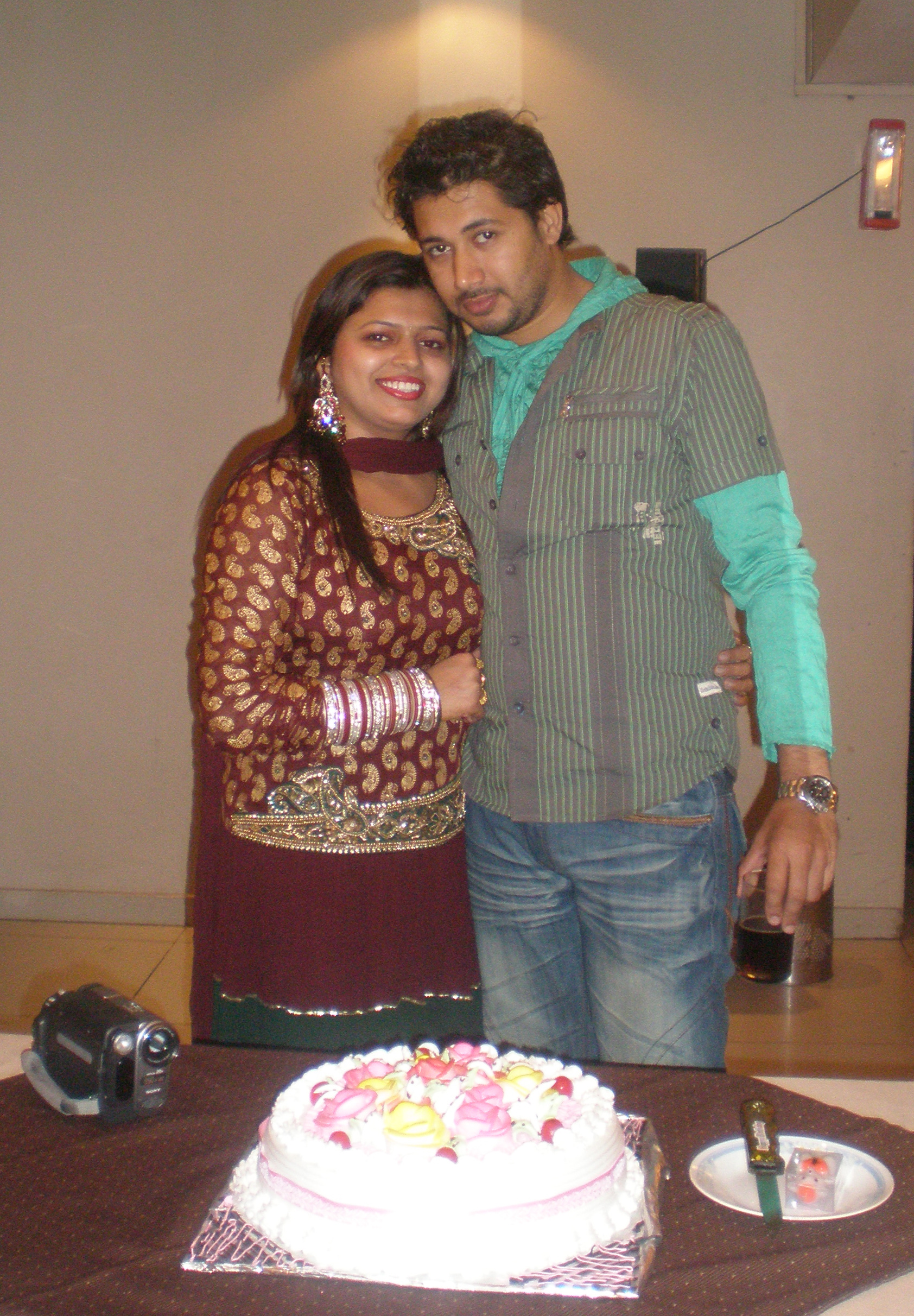 A couple celebrating paper anniversary